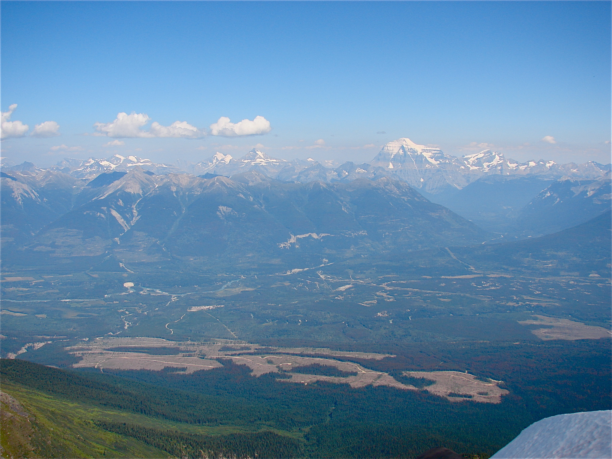 Tete Jaune Cache from summit of Mica Mtn. Note Mt. Robson in Background